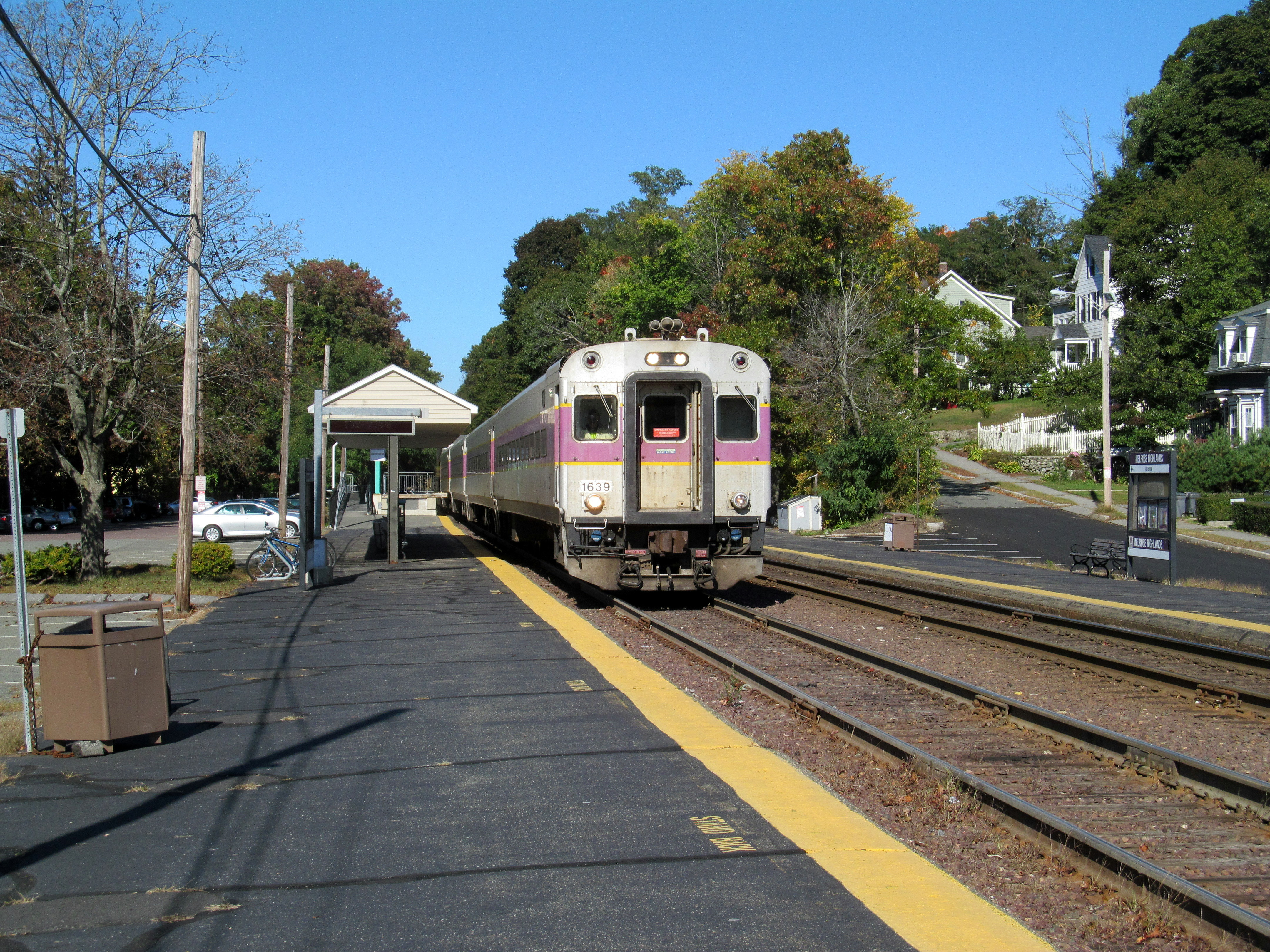 Inbound train arriving at Melrose Highlands station in October 2014